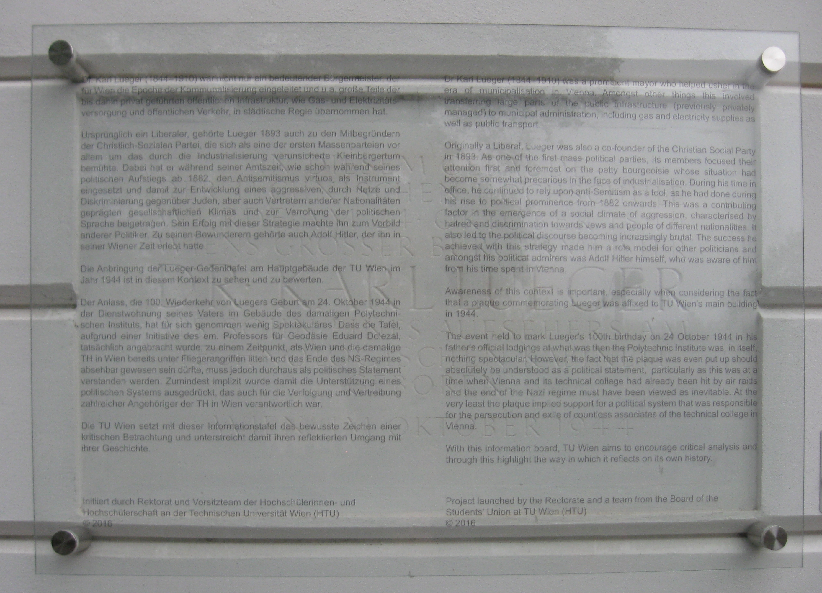 Additional plate over the former – monument-protected – memorial plaque at Vienna University of Technology, commemorating the birth place of Karl Lueger, a former mayor of Vienna.”Project launched by the Rectorate and a team from the Board of the Students’ Union at TU Wien (HTU) © 2016“Here is the view from the year 2014, before attaching the information panel.